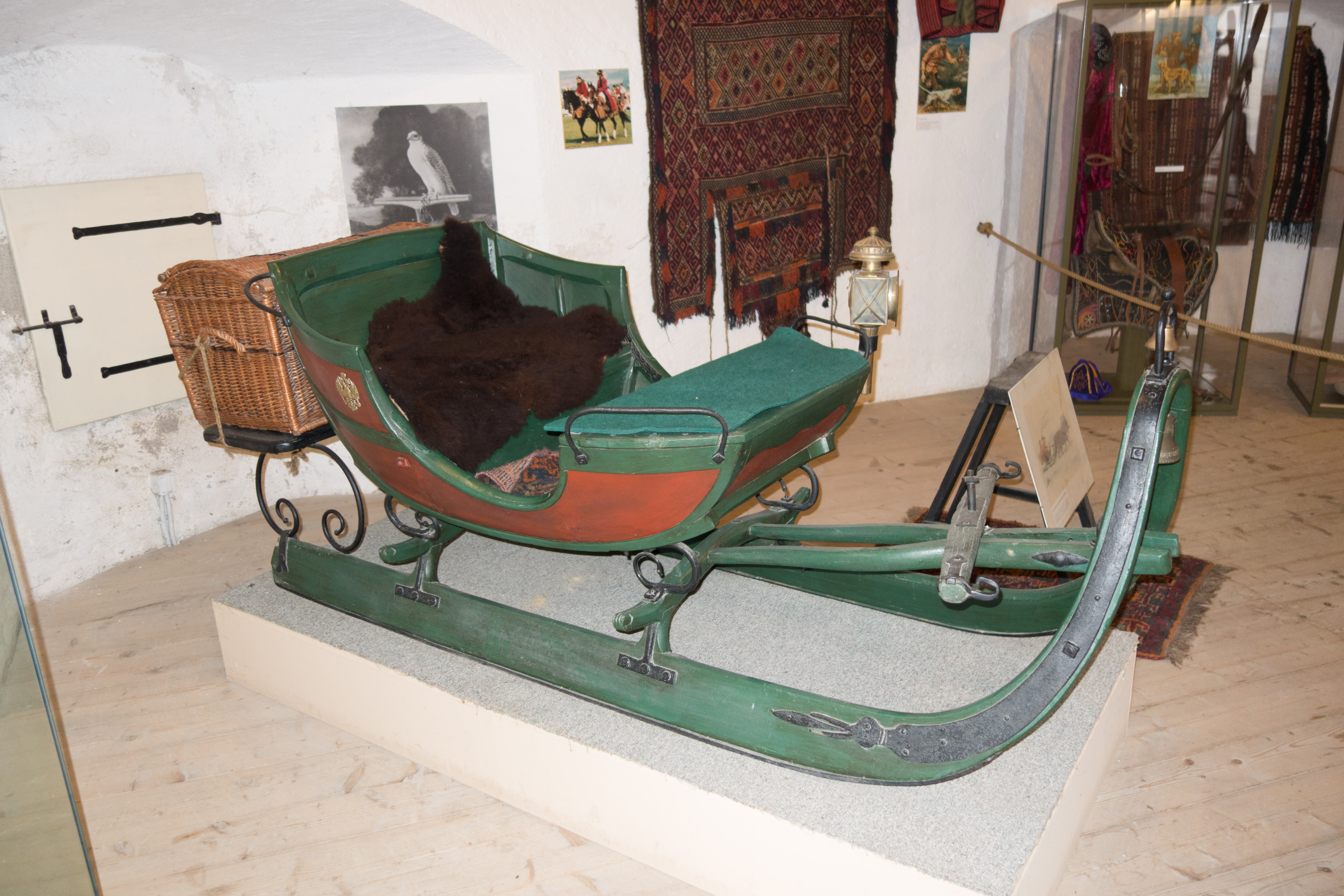 Austria